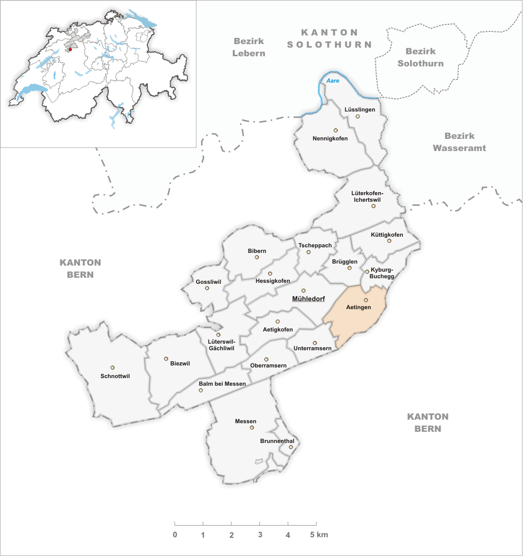 Municipality Aetingen